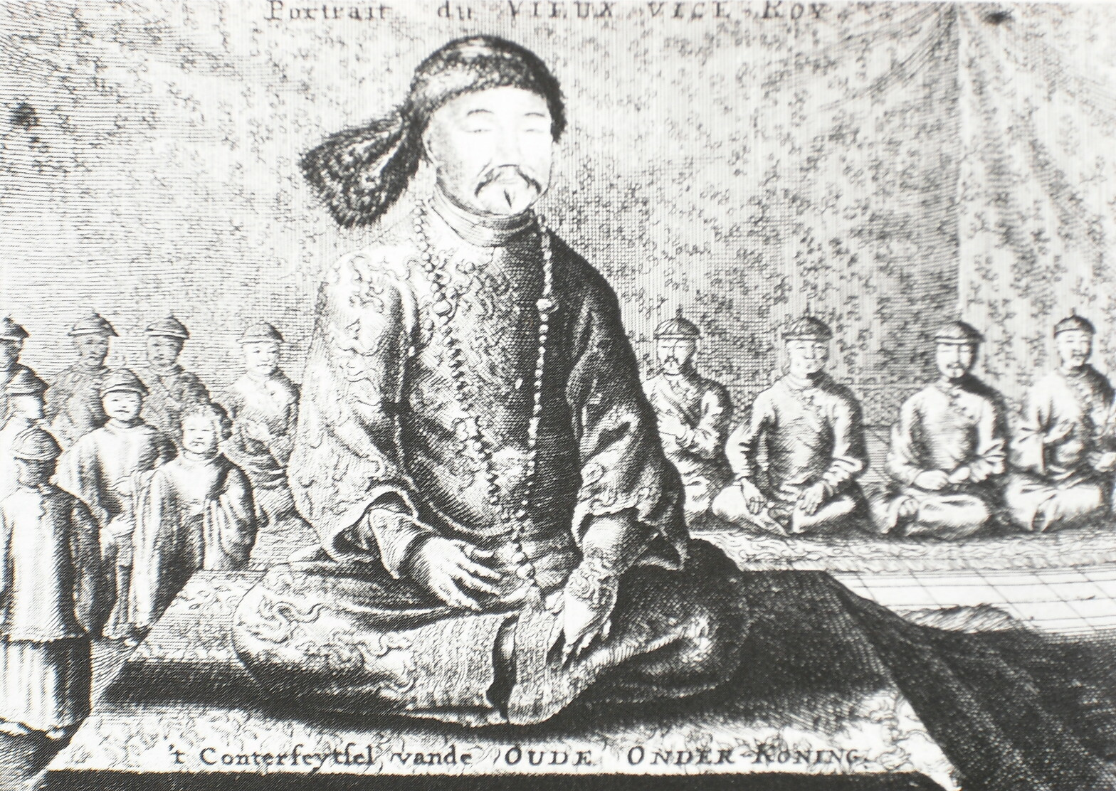 The "Old Viceroy" (feudatory prince) of Guangdong (i.e., Shang Kexi) drawn by the Dutch visitors in Guangzhou ca. 1655.